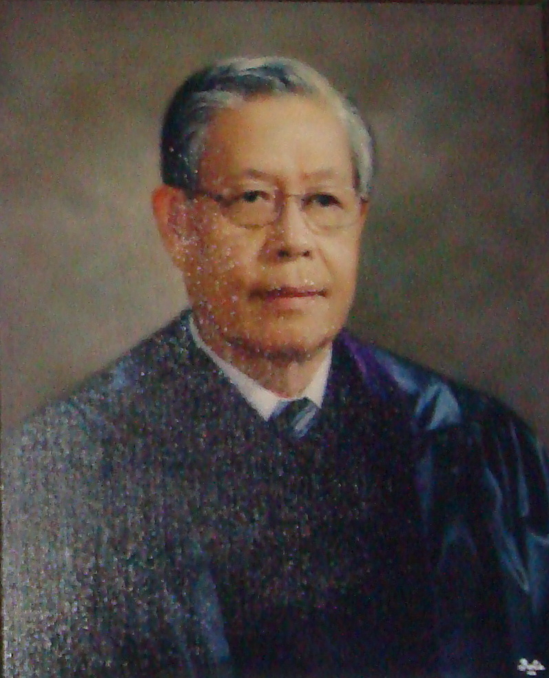 Portrait of Chief Justice Hilario G. Davide, Jr.